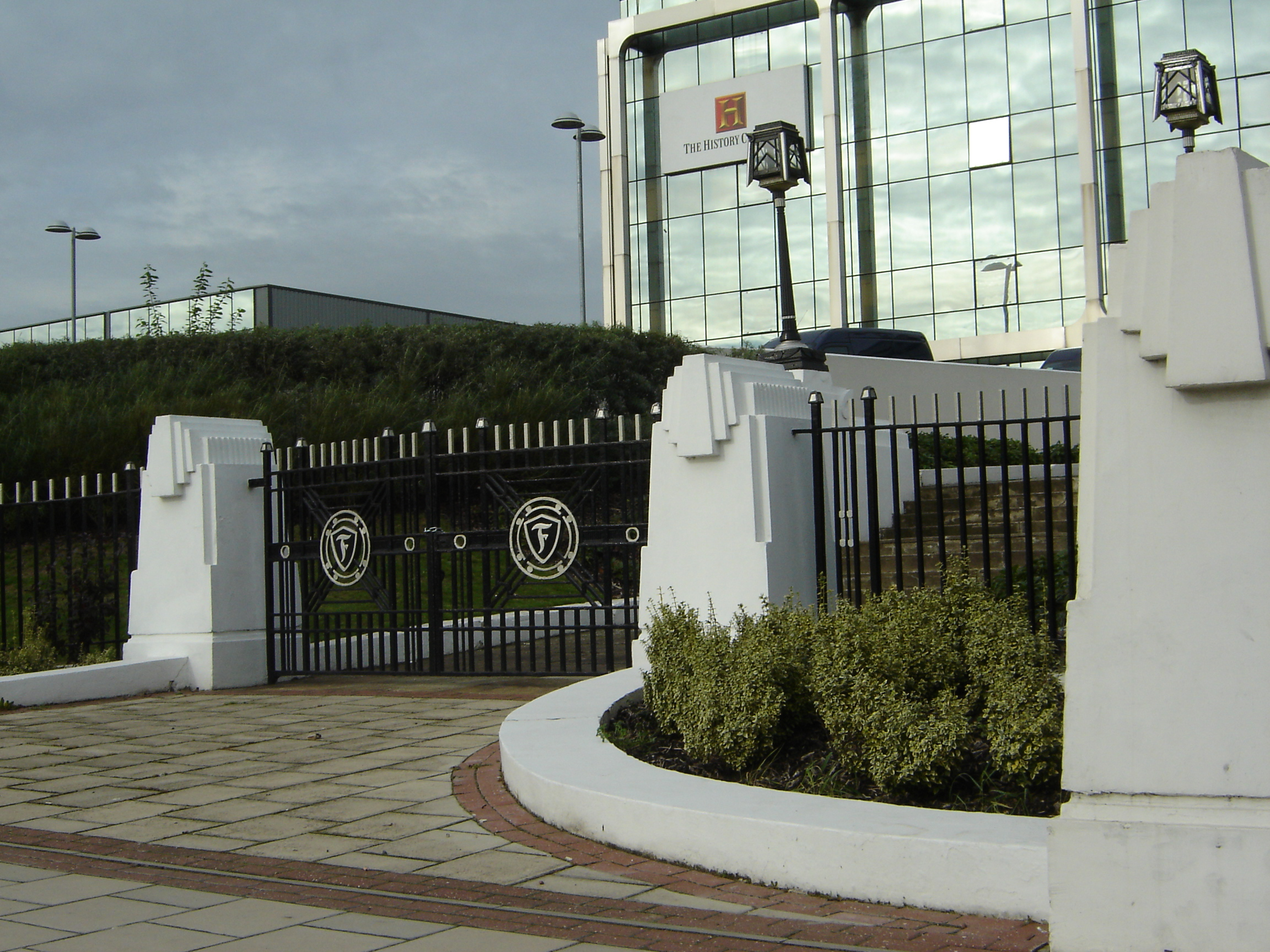 The gates and exterior railings of the former Firestone complex in Brentford.